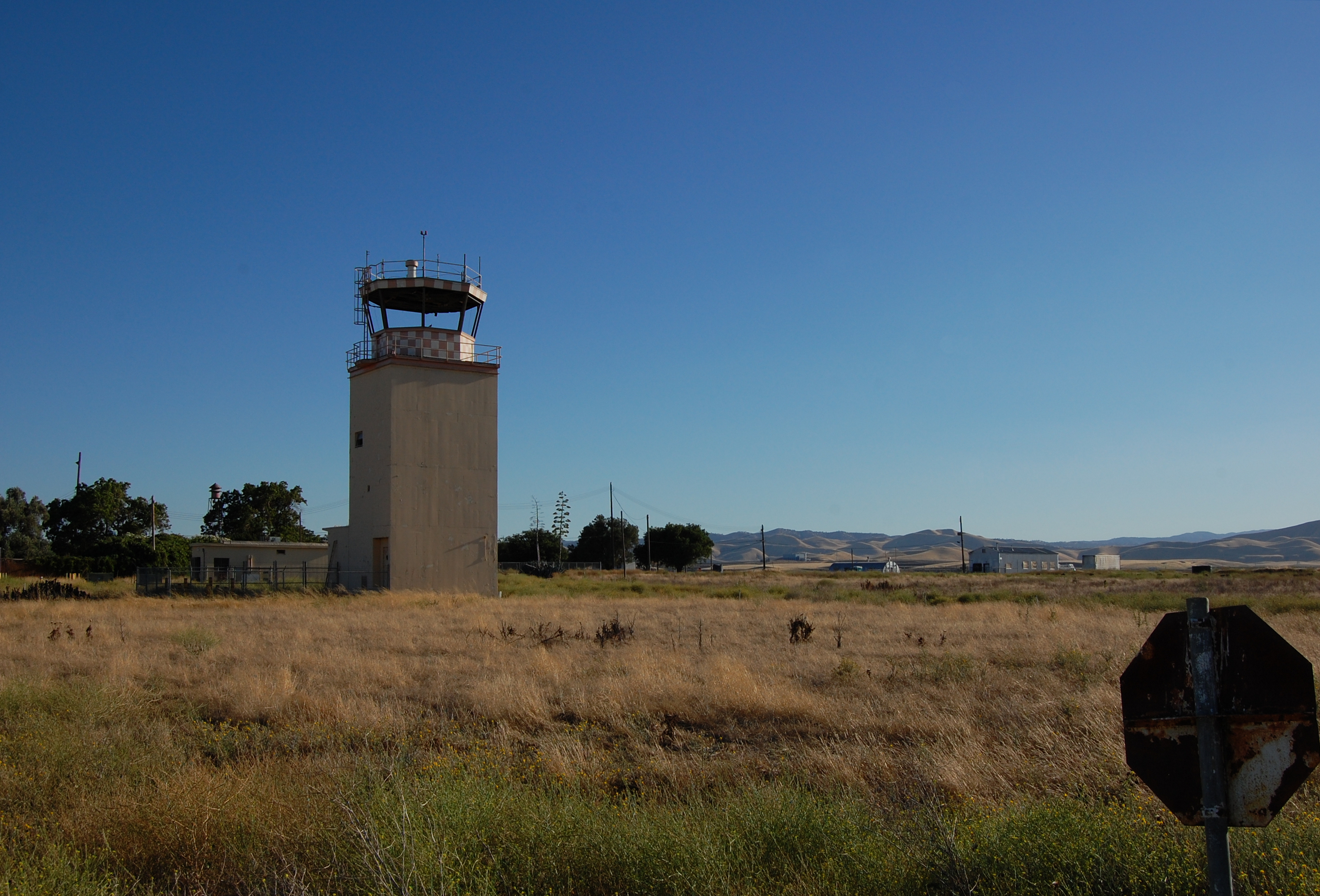 The control tower and a portion of the airfield of Crows Landing Naval Auxiliary Air Station as it appeared in July 2011. The former Air Station is now an adjunct field for NASA's Ames Research Center.